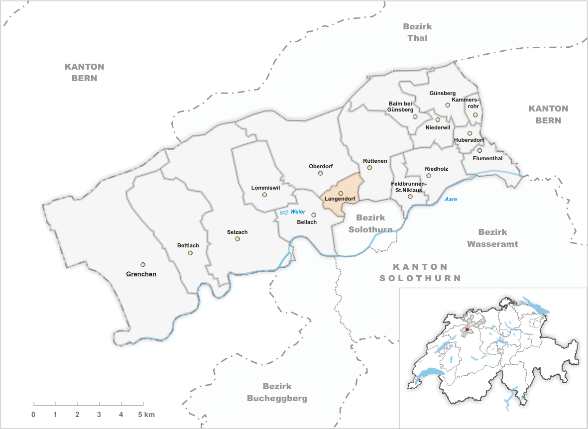 Municipality Langendorf